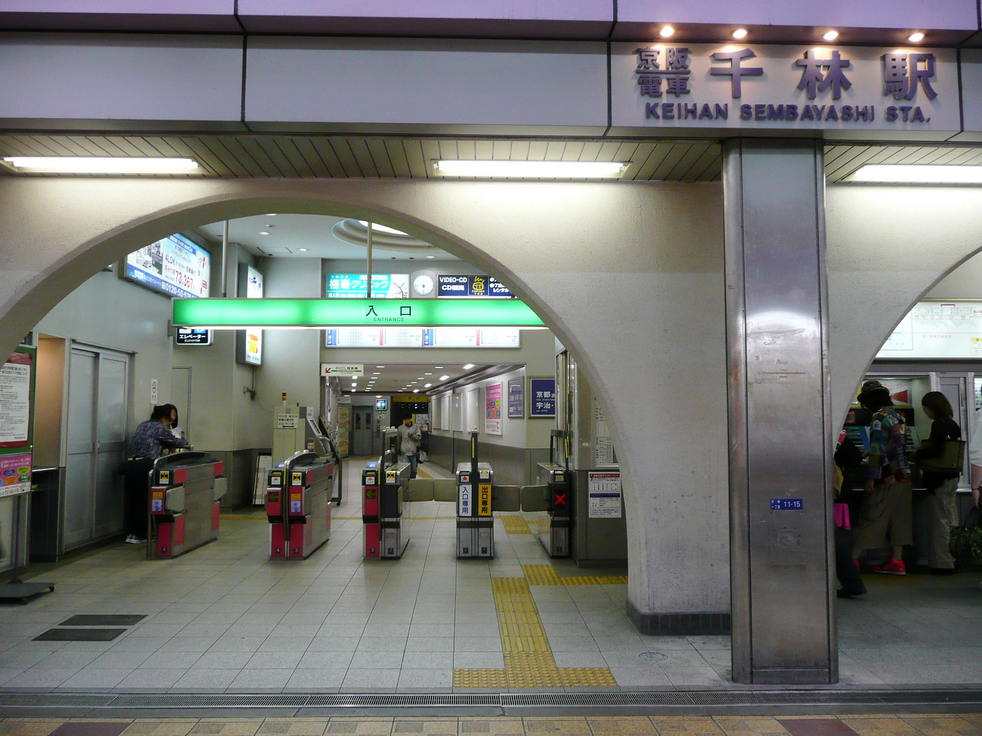 Keihan Electric Railway,Senbayashi Station. / 京阪電気鉄道千林駅